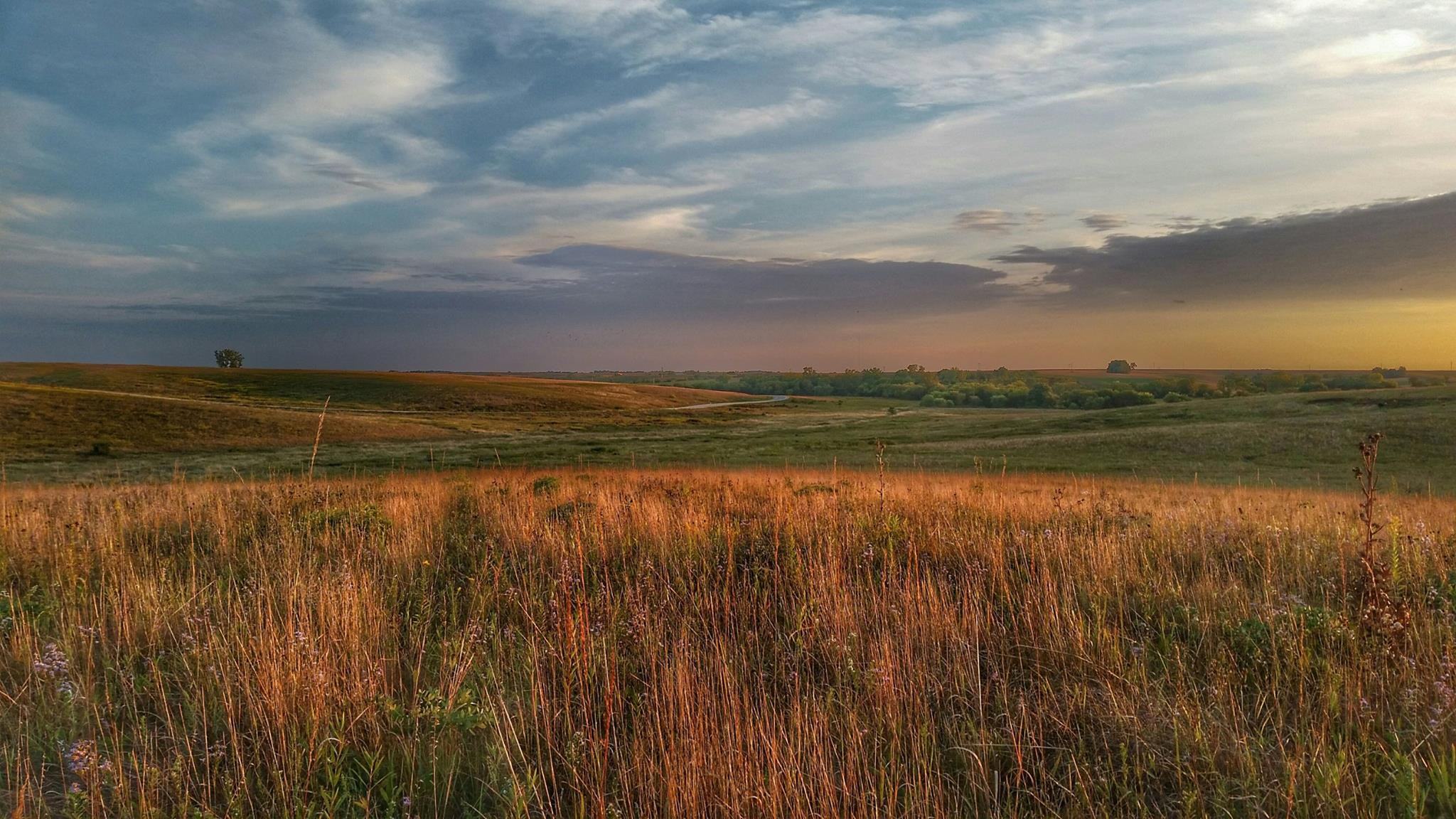 Looking for a place to take in beautiful landscapes? Visit your local wildlife refuge! Here's a stunning shot from Neal Smith National Wildlife Refuge in Iowa. Photo by Doreen Van Ryswyk/USFWS.